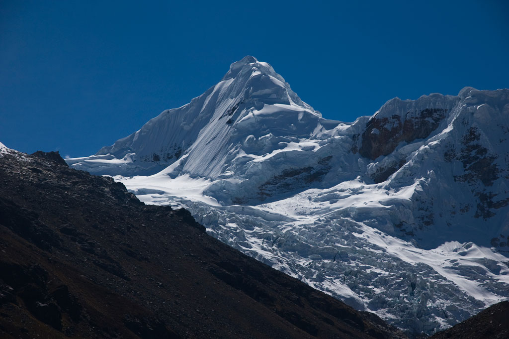 Tocllaraju views from Refugio Ishinca